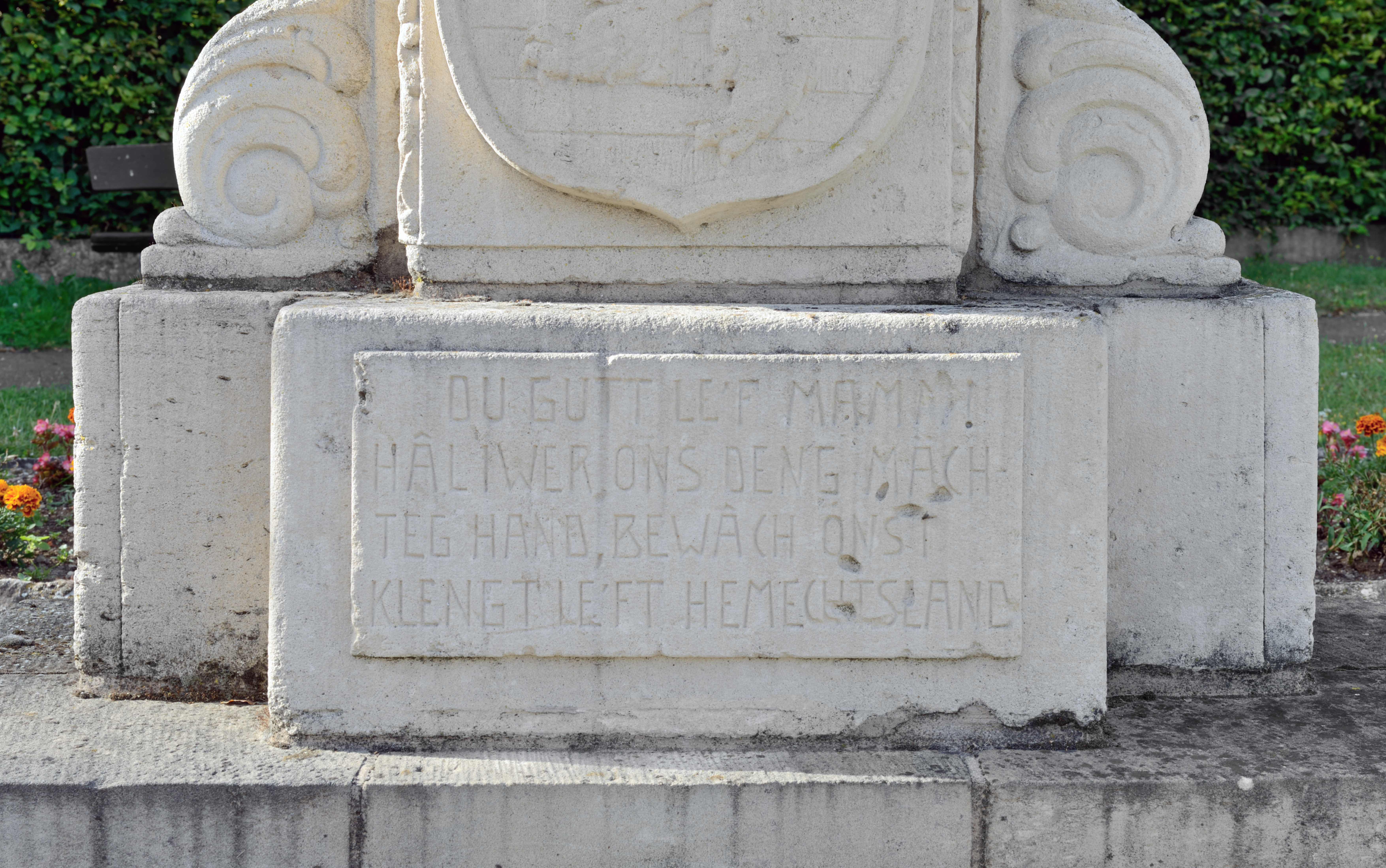 Luxembourg, Beidweiler: anterior detail of the monument of 1939 commemorating the 100th year of the independence of Luxembourg.